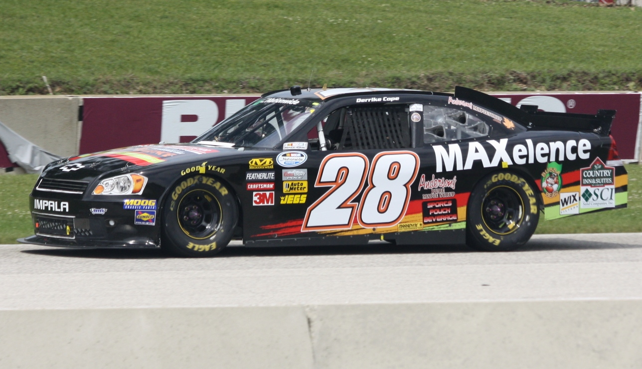 NASCAR driver Derrike Cope racing his stock car at Road America at the 2011 Bucyros 200 Nationwide Series race.